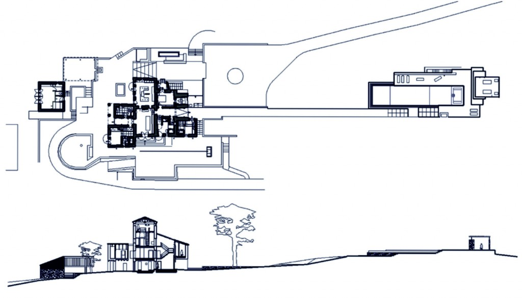 Drawing